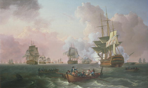 Painting depicting the Battle of the Nile, 1798.